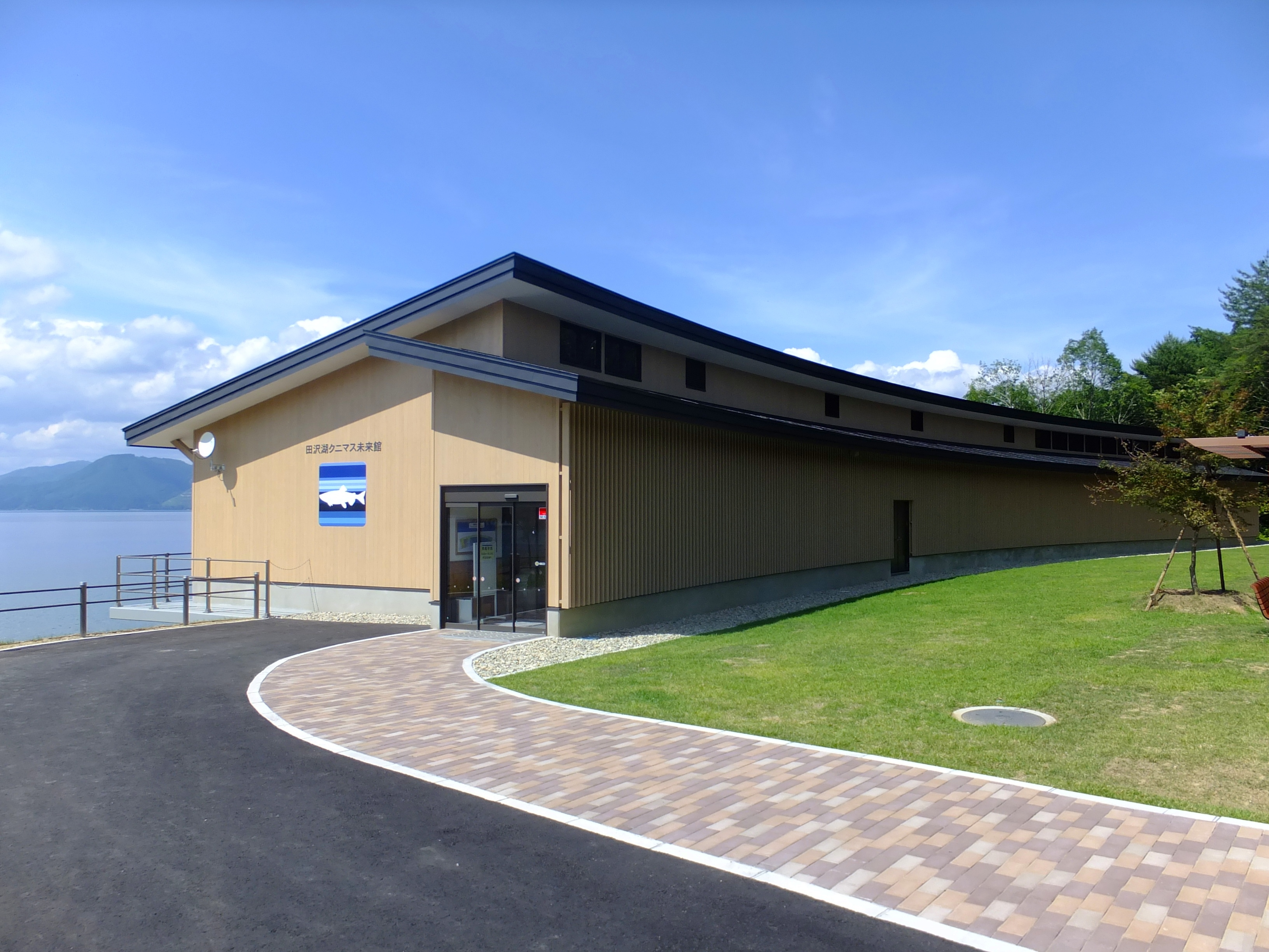 Tazawako Kunimasu Miraikan is a public aquarium and museum which is located by the Lake Tazawa.